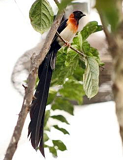 Eastern Paradise-whydah